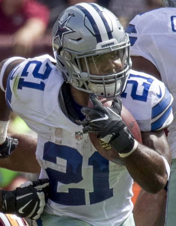 Ezekiel Elliott, a player on the National Football League.